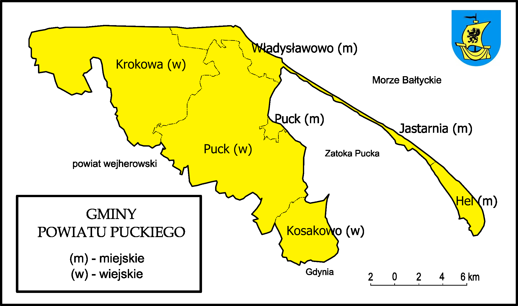 Puck county (powiatship, pl: powiat pucki), Pomorskie (Pomeranian) Voivodeship, Poland; administrative division of Puck County - communes (pl: gminy) (w) - rural commune (m) - municipal commune Wejherowo County Baltic Sea City of Gdynia Bay of Puck